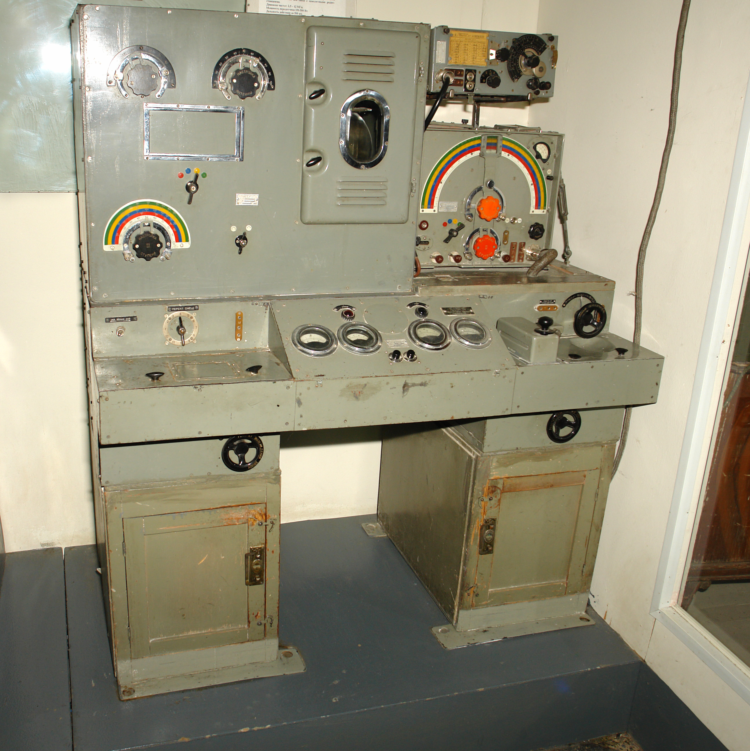 RAF-KV-bis radio set: HF radio station, telephone and telegraph, designed in 1941. Frequency range: 2.5 - 12 MHz Transmitting power: 150-500 W Range: 500 km. Power supplies: RDN-2500 generator, petrol engine L-b/2, umformer RUN A-120, a buffer of three 5NKN-100 accu. On display "Artillery and engineering troops" section at the Military-Historical Museum., St. Petersburg.